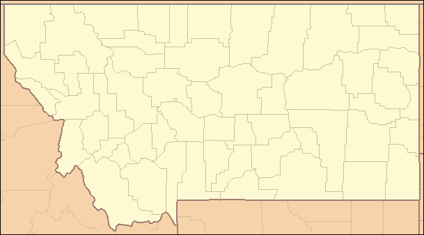 Locator Map of Montana, United States